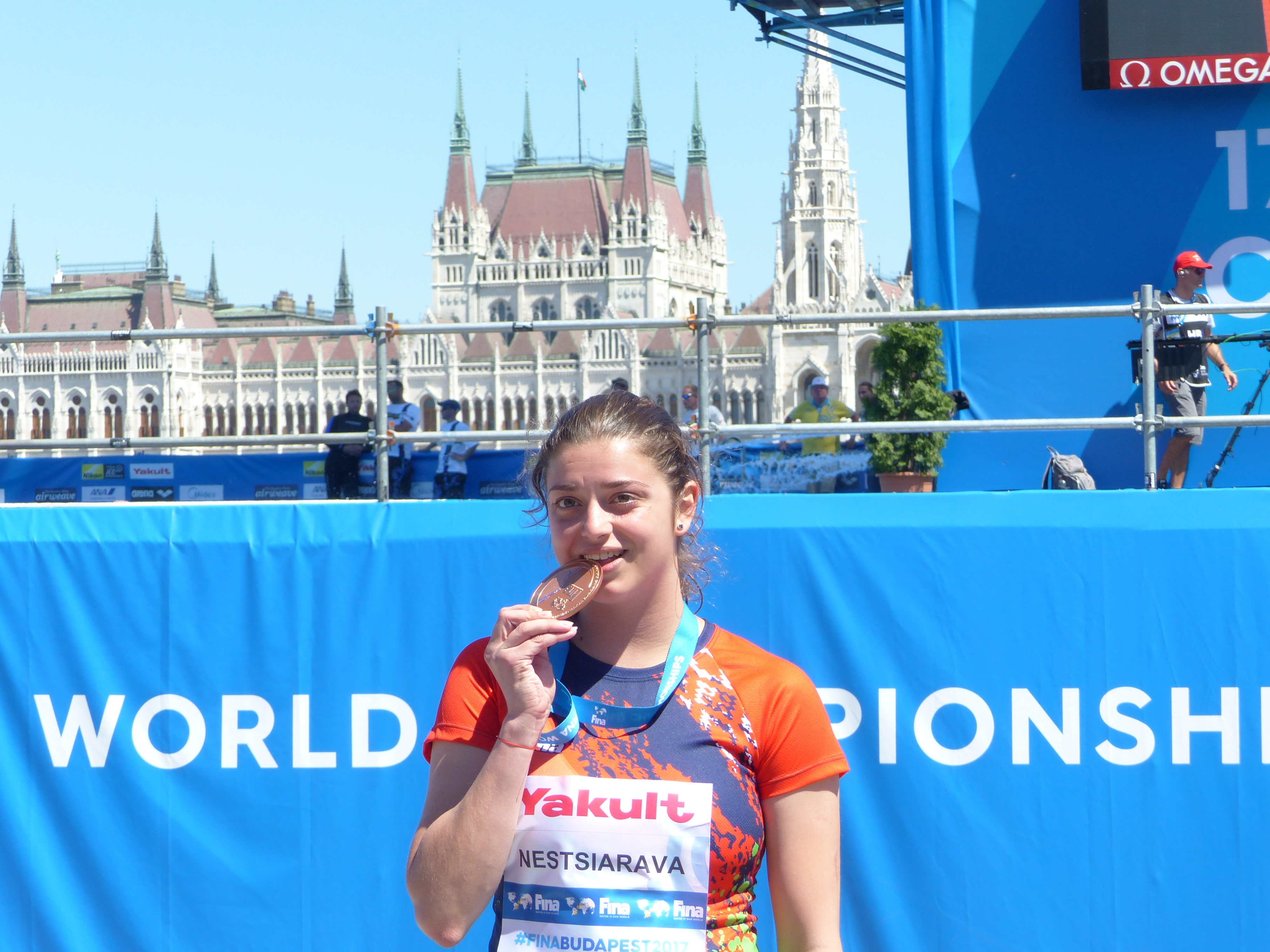 Belarusian Yana Nestsiarava took bronze with 303.95. Women’s 20m High Dive Final Resultsː Rhiannan Iffland, AUS, 320.70, Adriana Jimenez, MEX, 308.90, Yana Nestsiarava, BLR, 303.95 Tara Tira, USA, 299.50, Anna Bader, GER, 283.40